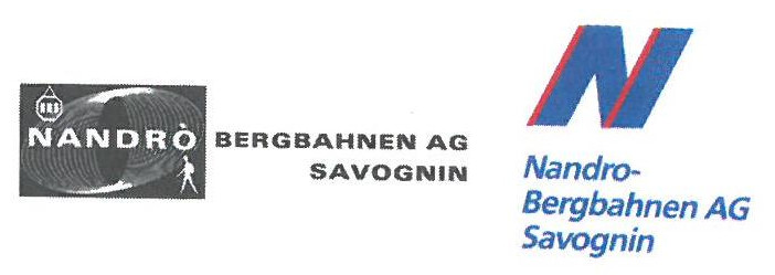 Former Logos of Savognin Bergbahnen, as it was called Nandro Bergbahnen AG